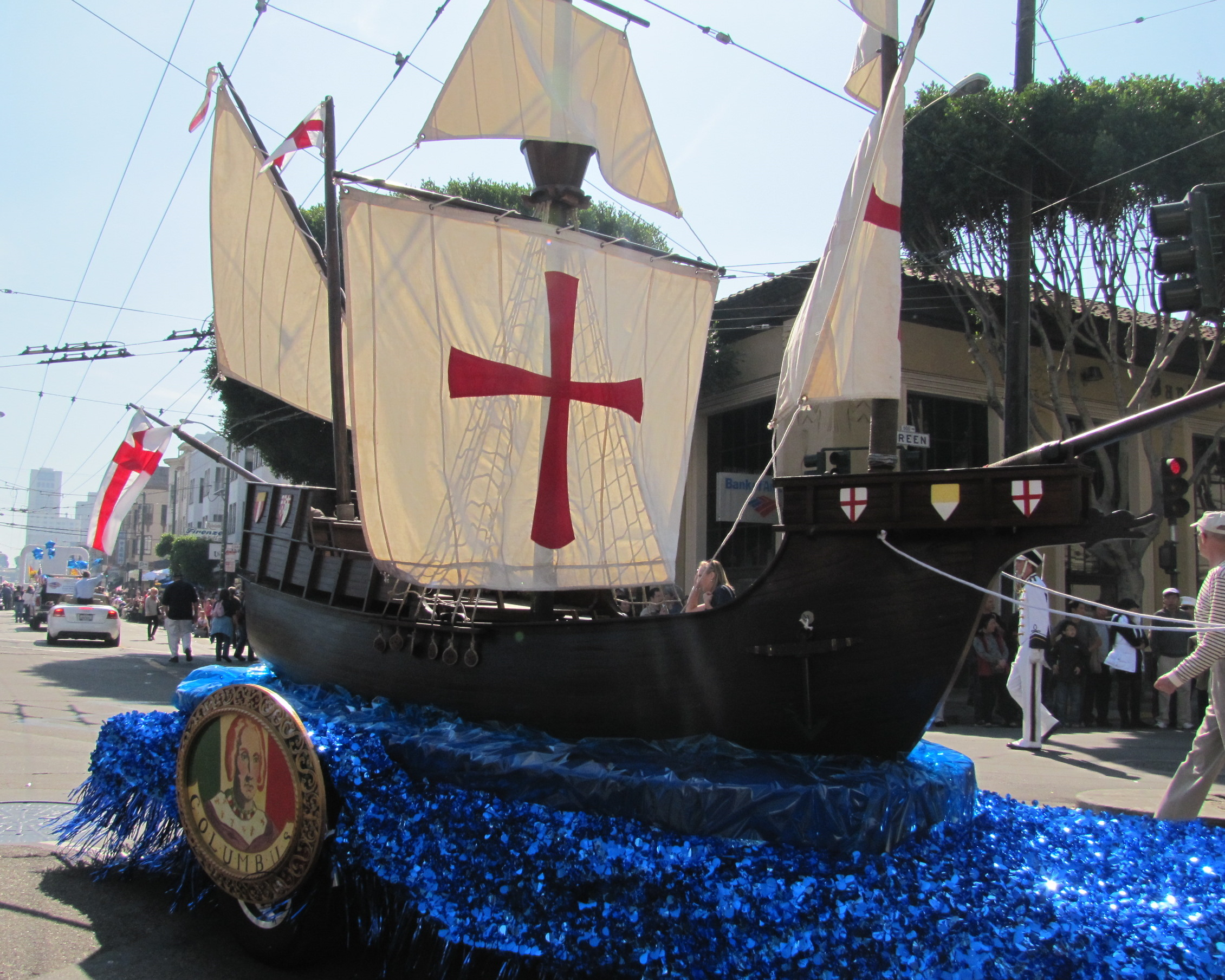 Columbus Day Italian Heritage Parade in SF North Beach 2011